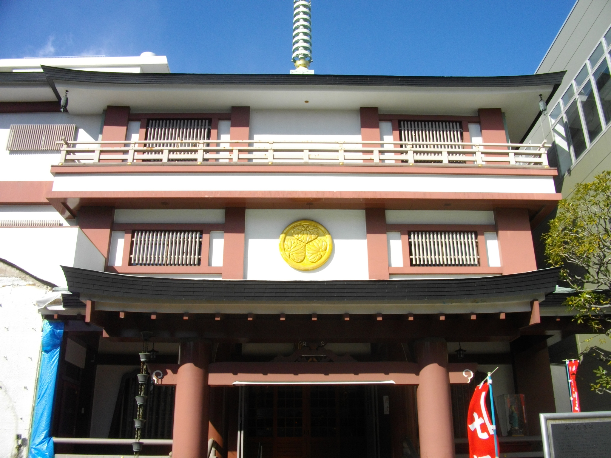 Sokei-ji (Bunkyo)